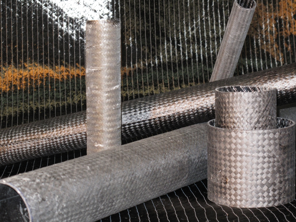 selection of carbonfibre